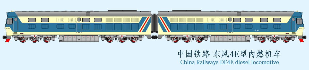 Drawing of a China Railways DF4E diesel locomotive (Computer graphic)